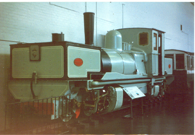 York. Inside the N.R.M. Built for the Tasmanian Government Railways, this was the World's first locomotive designed to operate on the Beyer-Garratt principle.